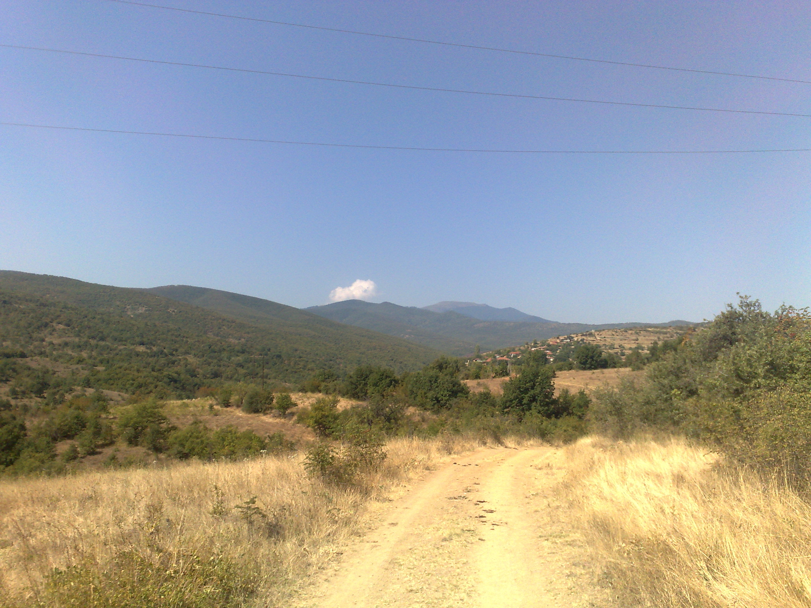 The road to village of S'lp near Veles, Macedonia